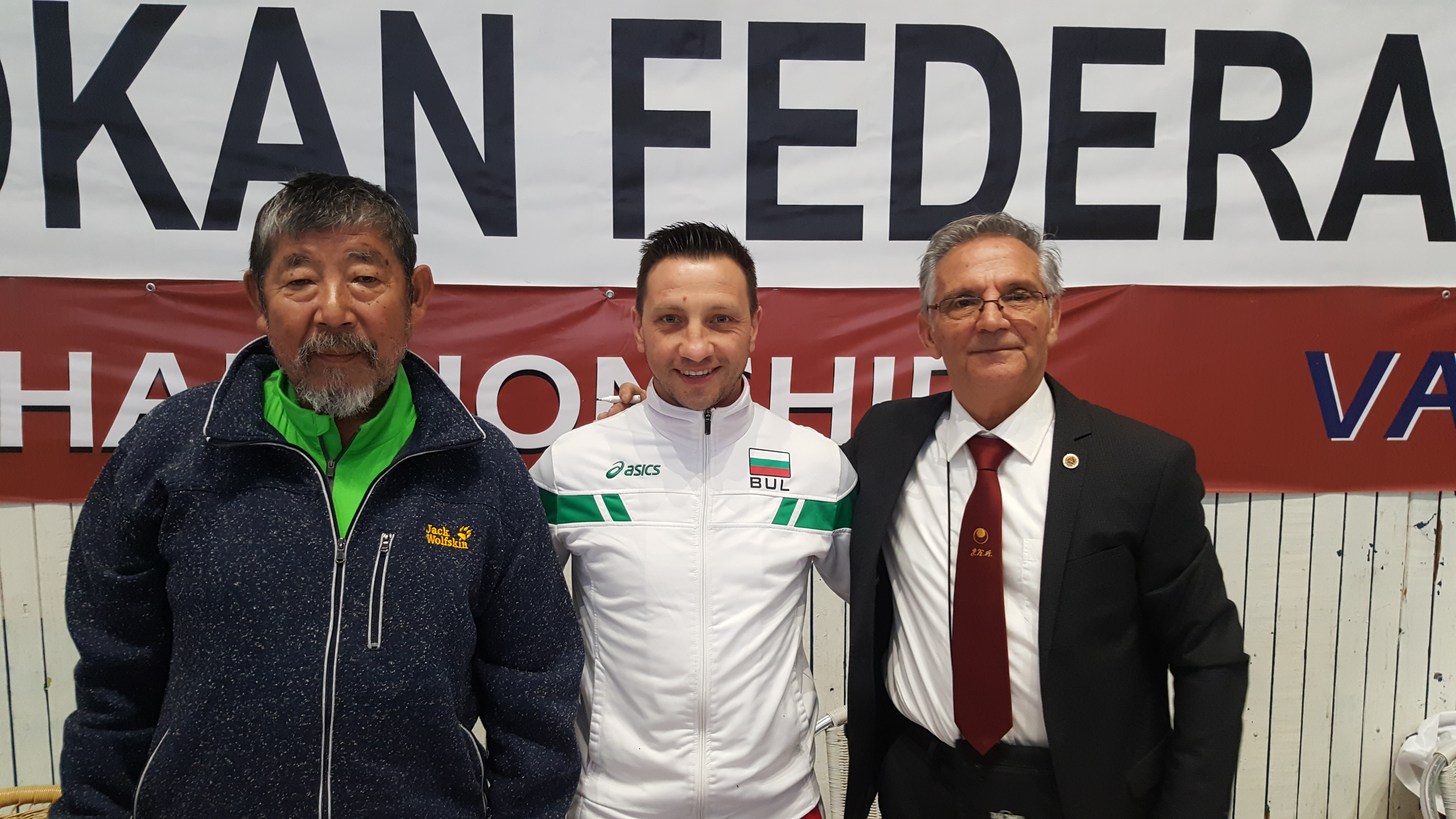 Борислав Иванов на лагер по карате